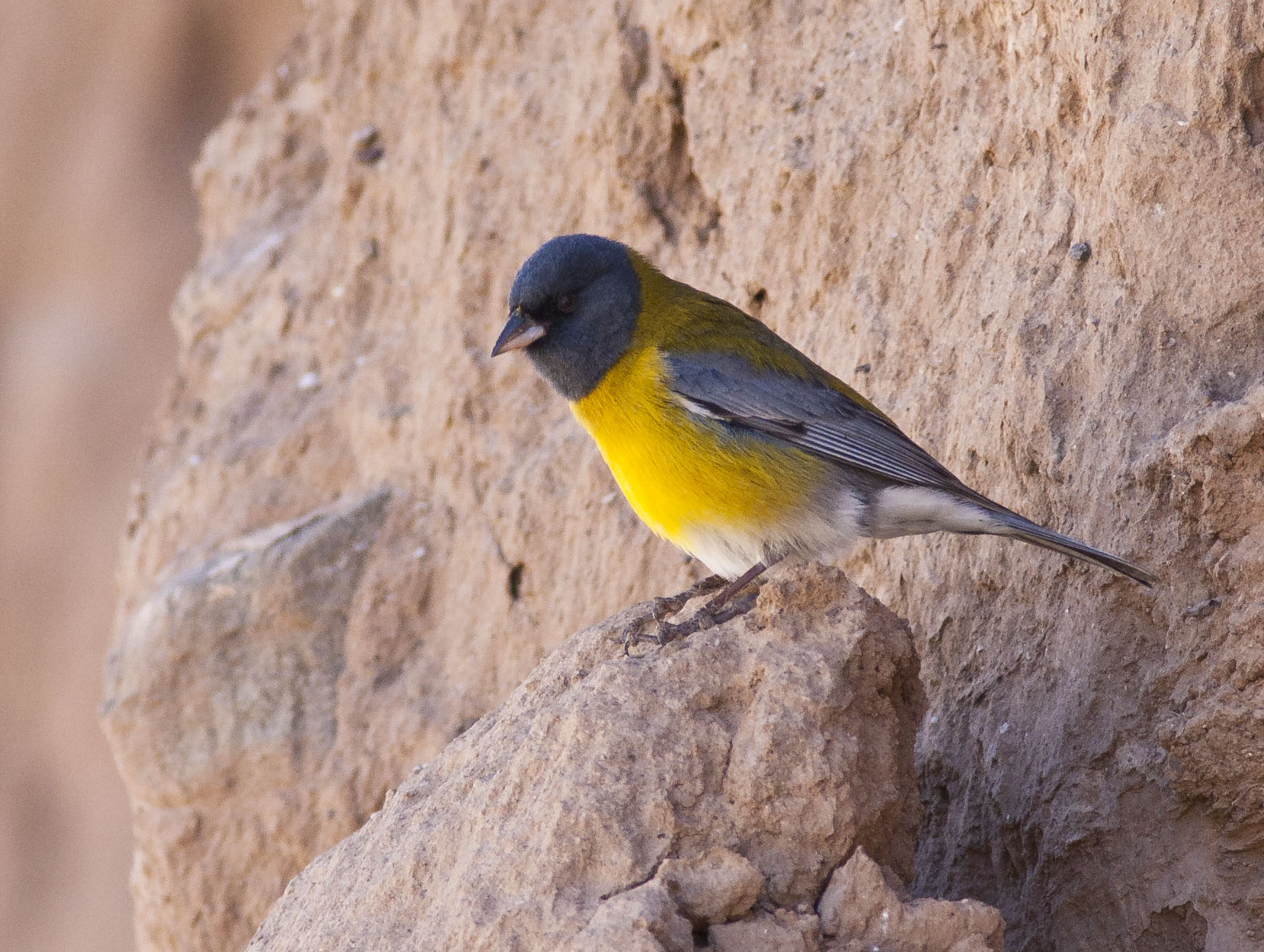 Grey-hooded Sierra Finch Phrygilus gayi, El Infiernillo, Tafí del Valle, Tucumán, Argentina